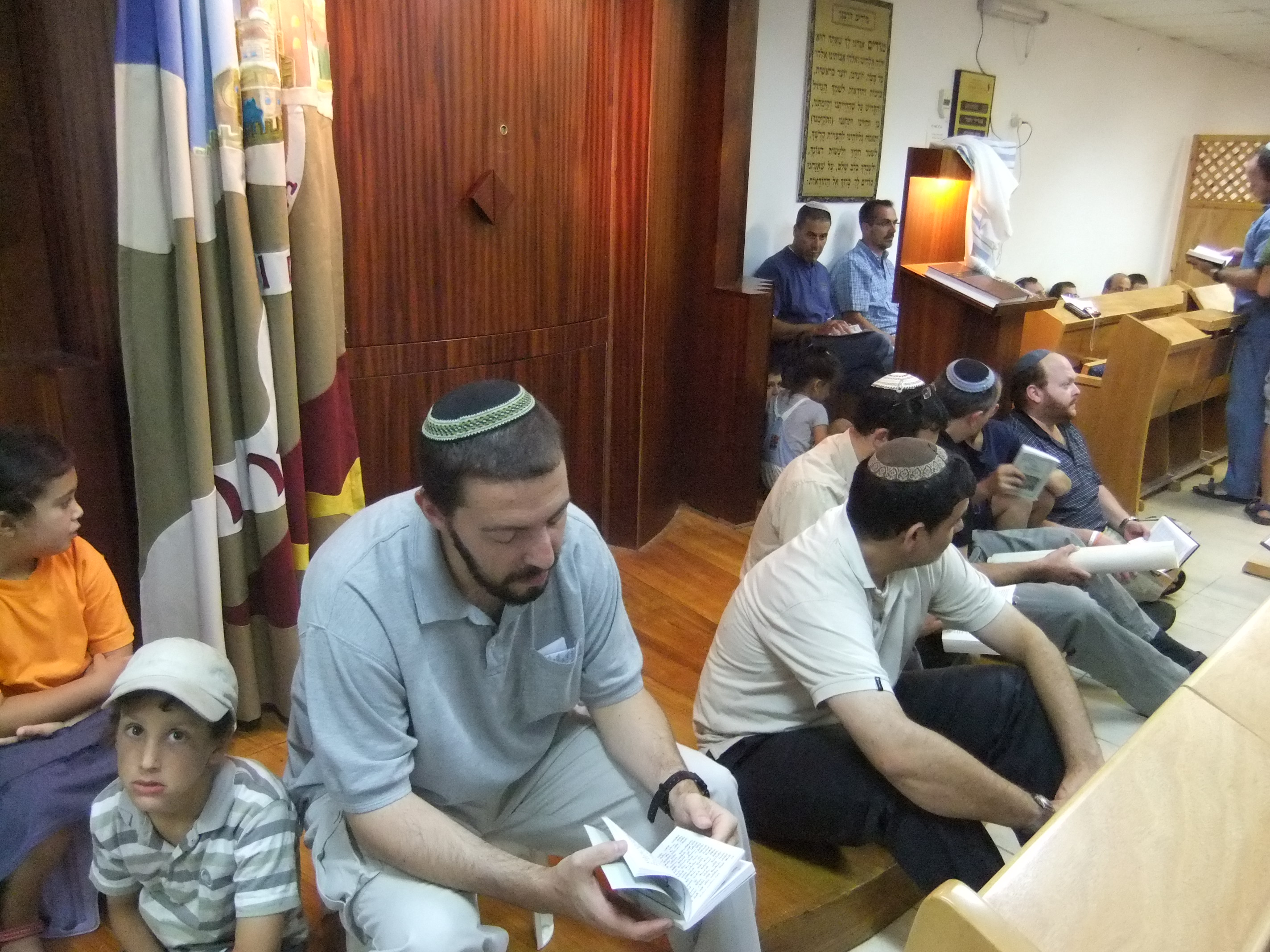 Tisha Bav. About to begin reading Eicha. The holy ark's Parachot is pulled aside and the people are sitting low close to the ground. On the right a person is holding a parchment of Eicha